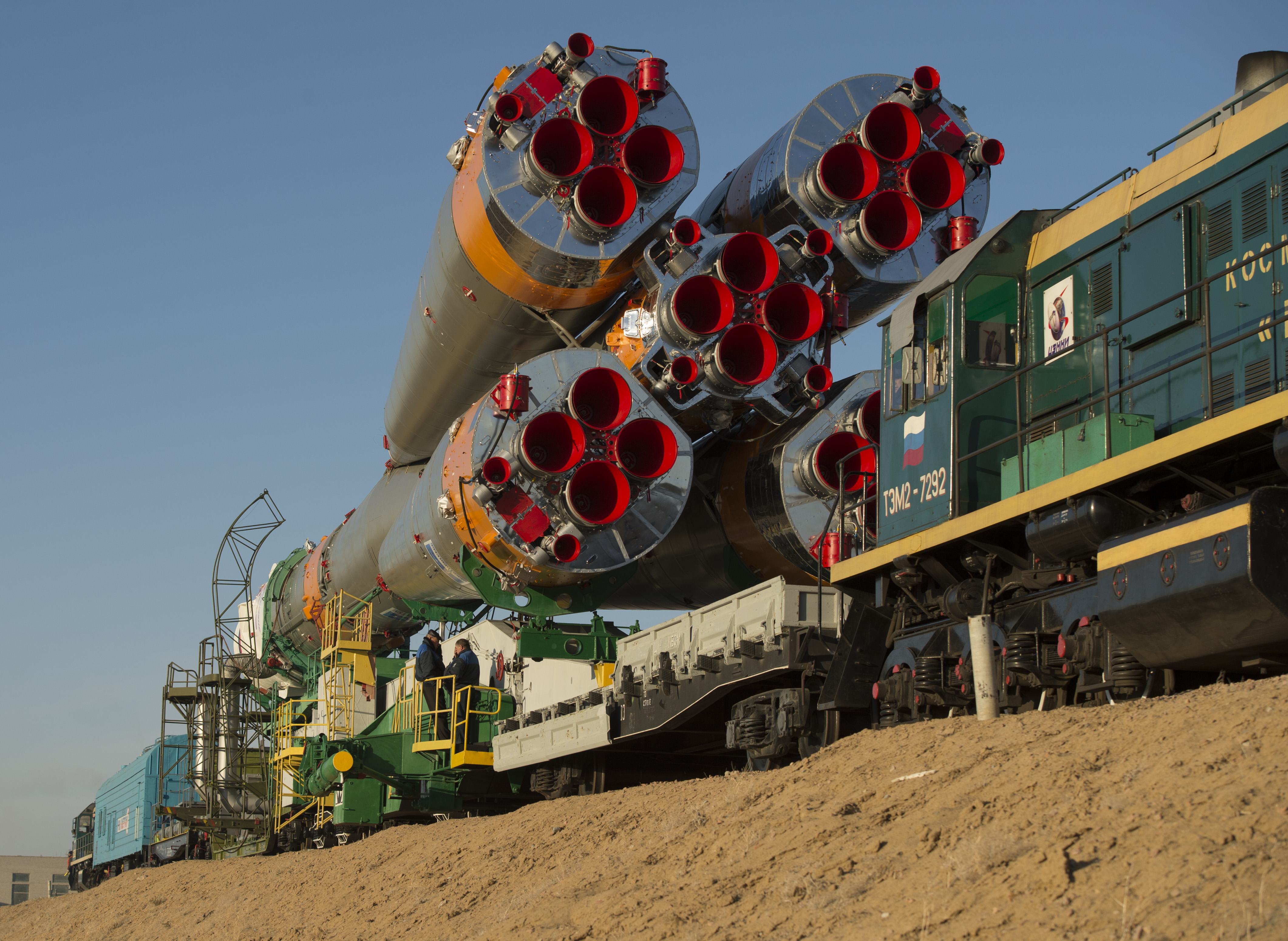 The Soyuz rocket is rolled out to the launch pad by train on Tuesday, March 26, 2013, at the Baikonur Cosmodrome in Kazakhstan. Launch of the Soyuz rocket is scheduled for March 29 and will send Expedition 35 Soyuz Commander Pavel Vinogradov, and Flight Engineers Chris Cassidy of NASA and Alexander Misurkin of Russia on a five-and-a-half-month mission aboard the International Space Station.